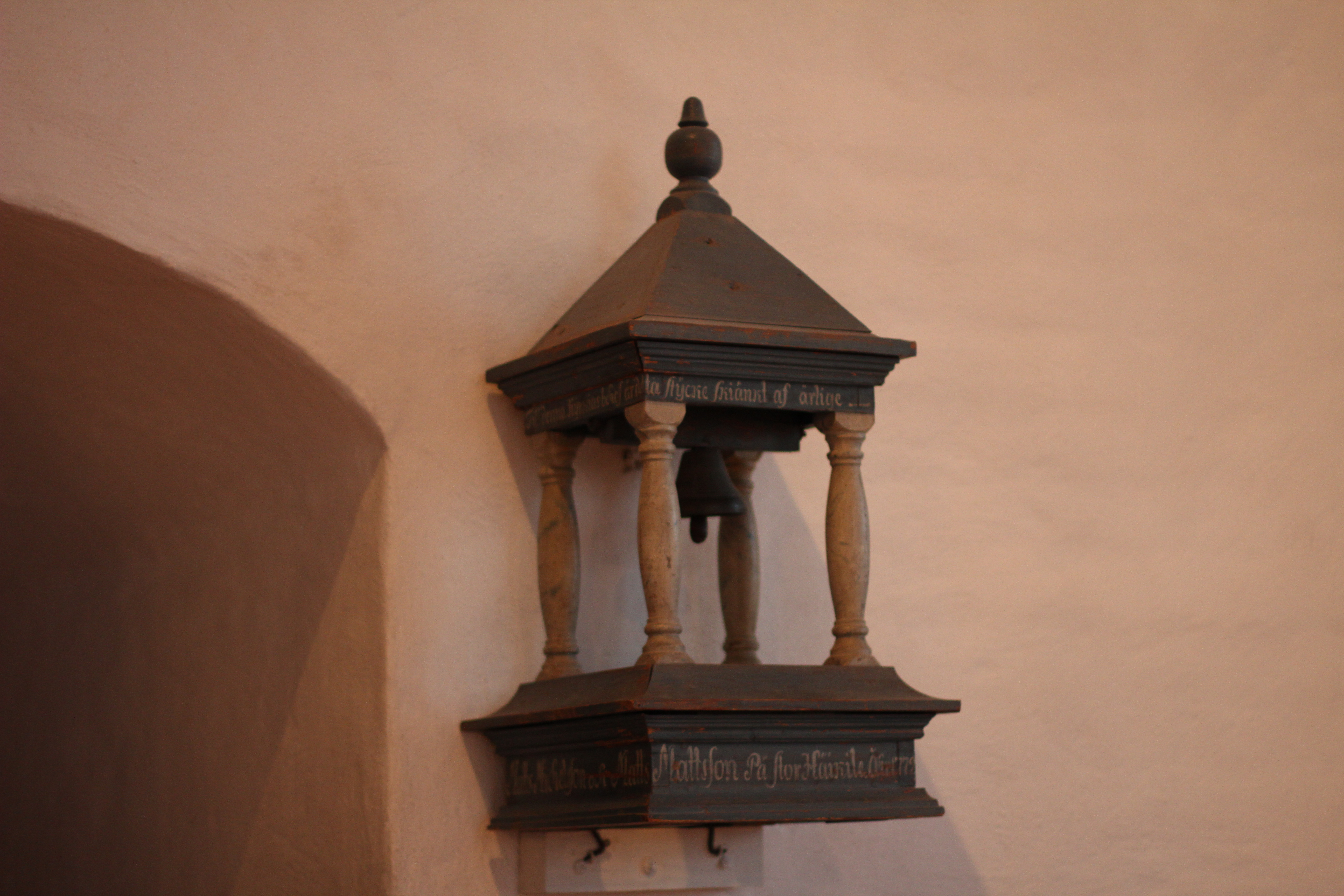 Confession bell, Turku castle church, Turku, Finland. - Confession bell (priest's bell) was used to gather parishioners to Holy Communion. - This is the only piece of the church's original interior that survived fire in 1941.